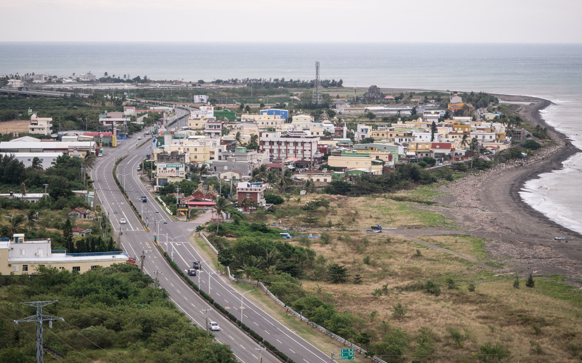 View south to Fangshan from the South-Link Line overlooking town. The sounth end of Fangshan can be seen towards the coast.